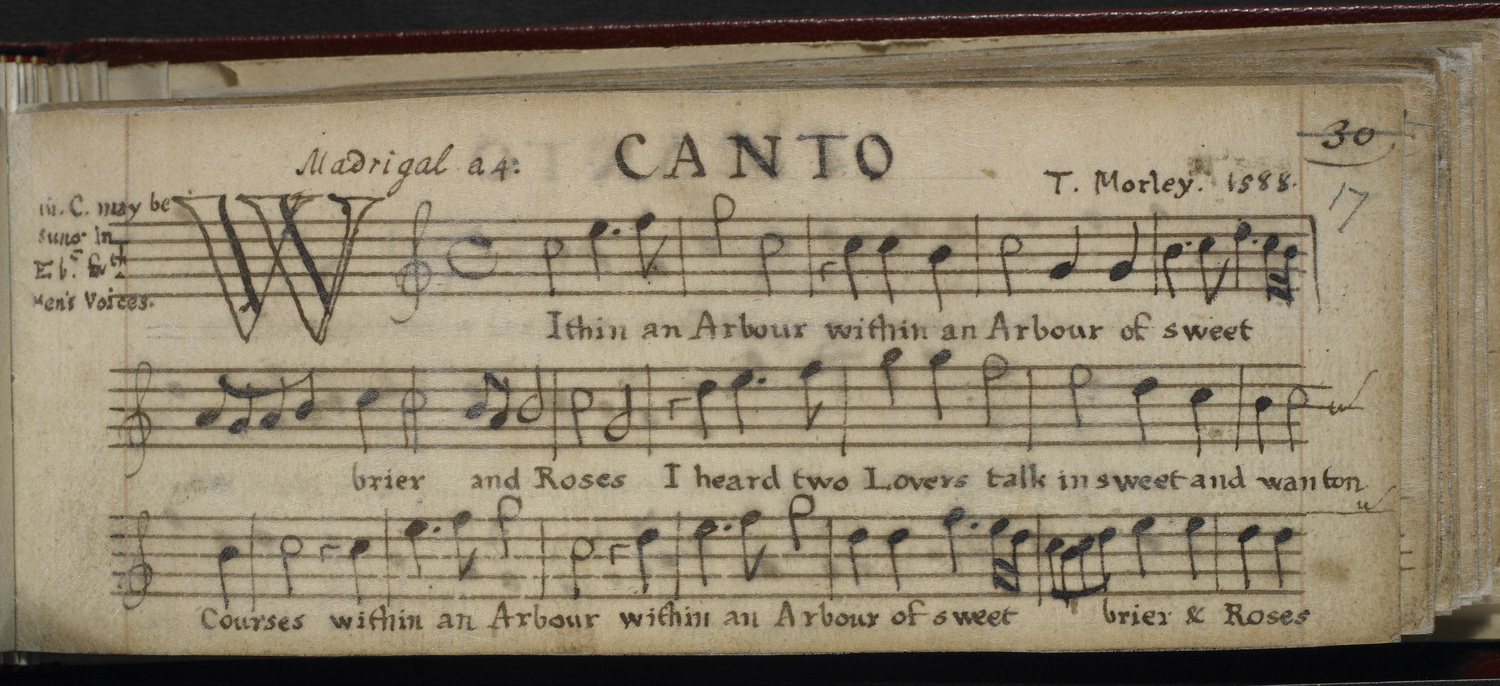 Within an arbour of sweet briar and roses. In the hand of John Immyns.